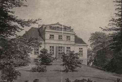 Ny Bakkegård, still extant country house in Frederiksberg. Home of Carl Christian Hall